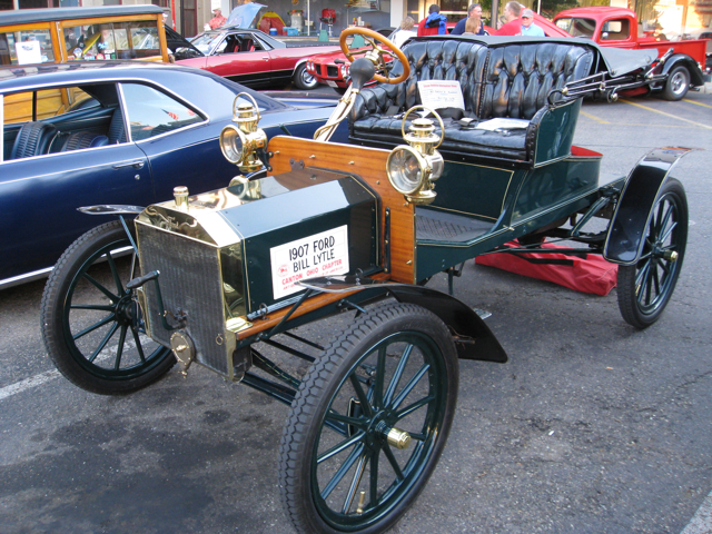 1907 Ford Model R roadster